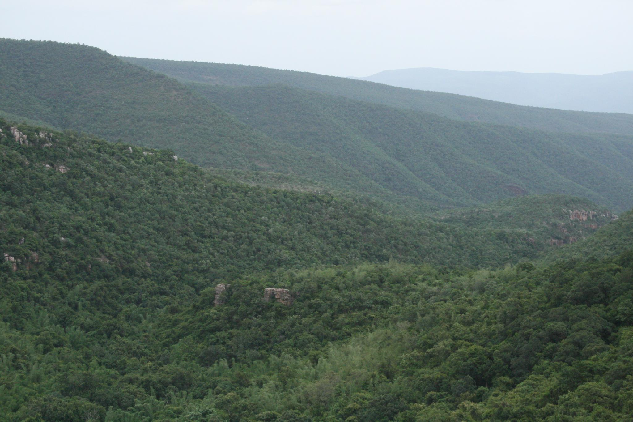 Sri Venkateswara National Park along Tirumala Hills, Andhra Pradesh